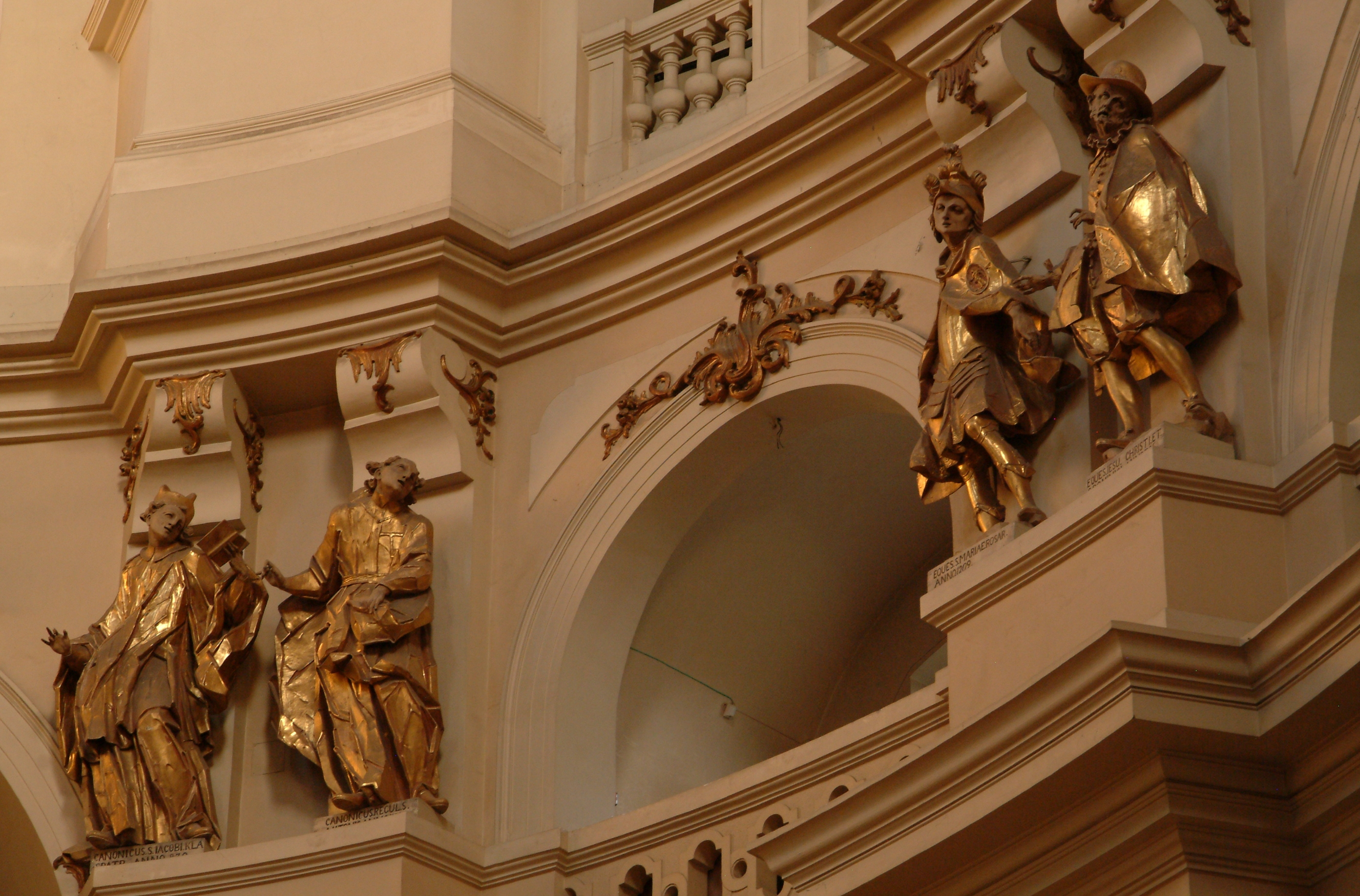 Sculpture in Dominicans Church